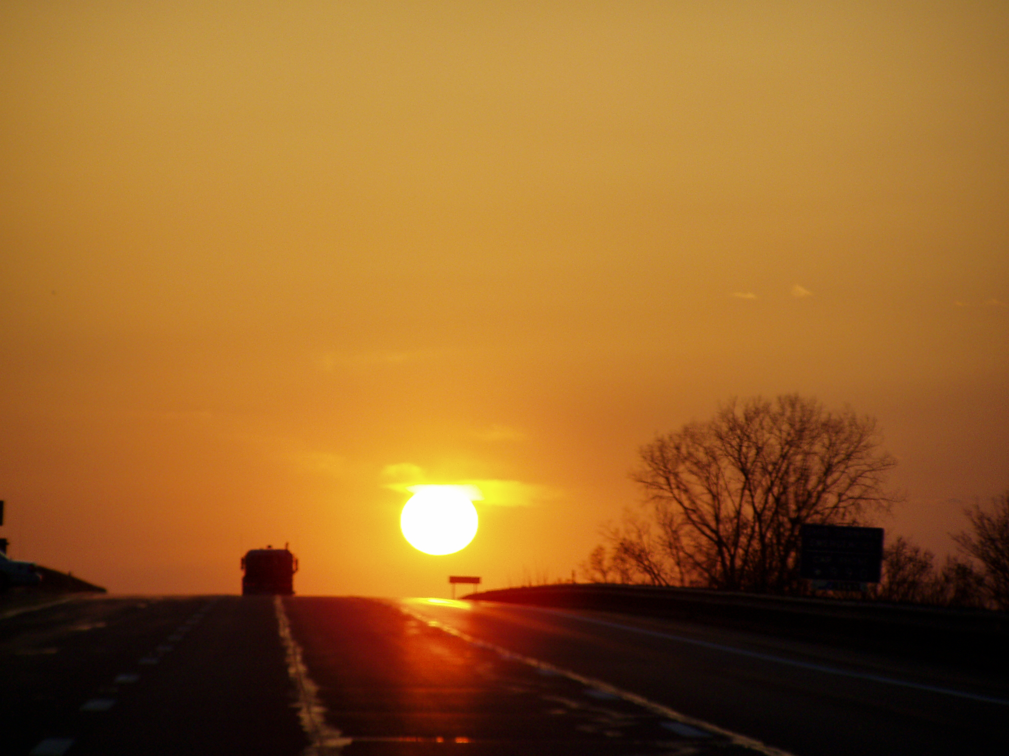 The sun sets over the westbound Ohio Turnpike.